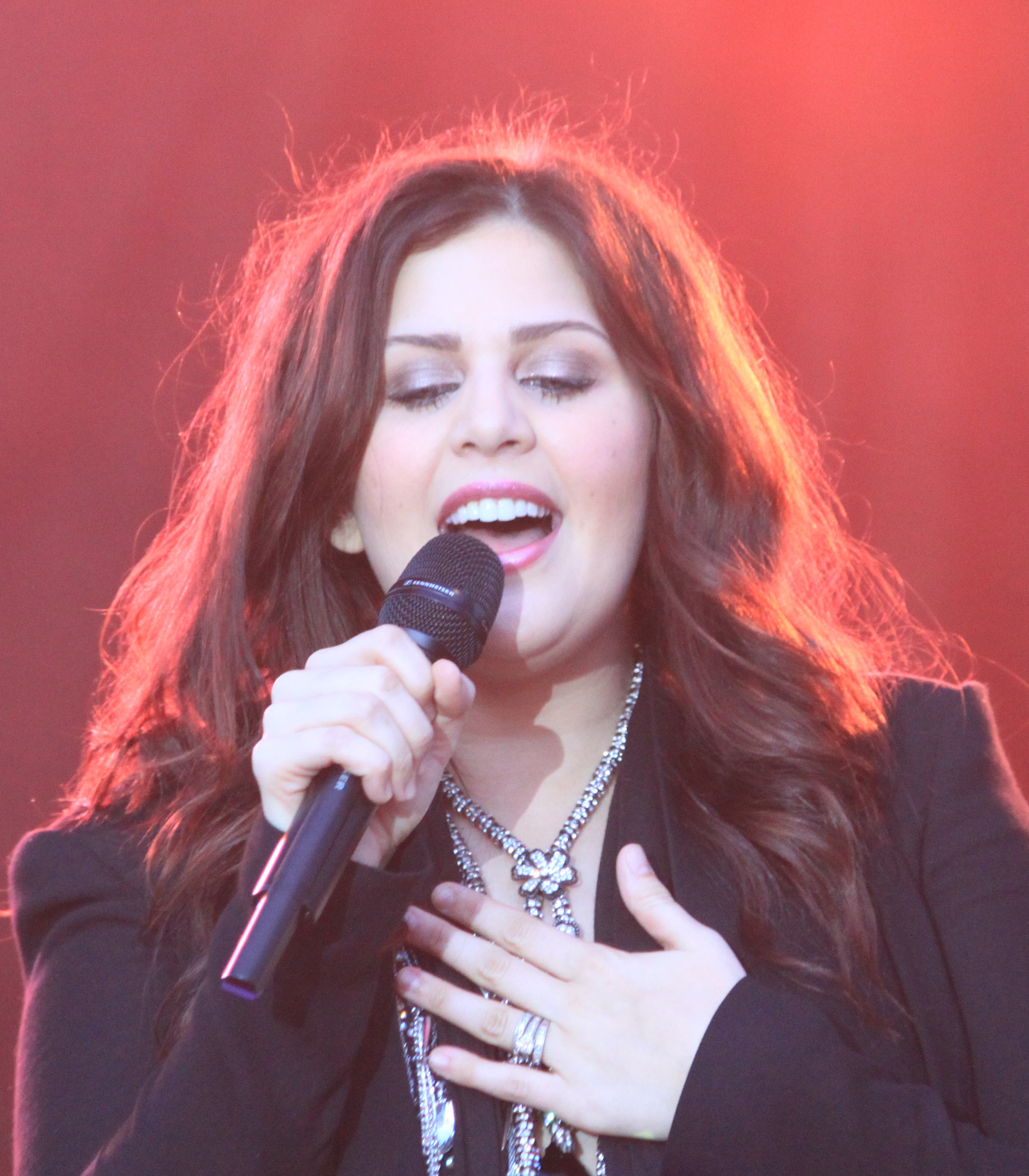 Lady Antebellum play in Charlotte